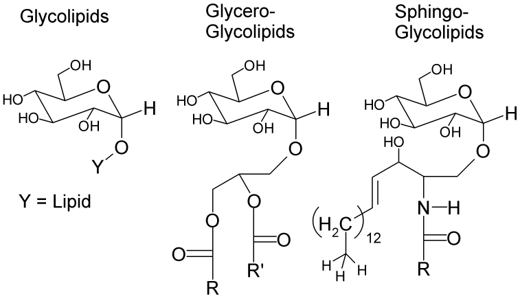 Chemical structure of Glycolipids